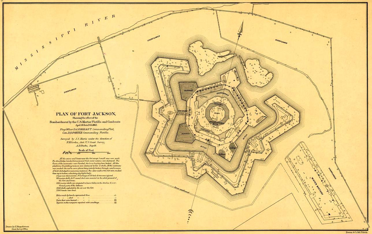 Map of Fort Jackson, guarding the Mississippi River in Plaquemines Parish, Louisiana, during the American Civil War, made after its capture by Union forces, showing damage from bombardment and battle.